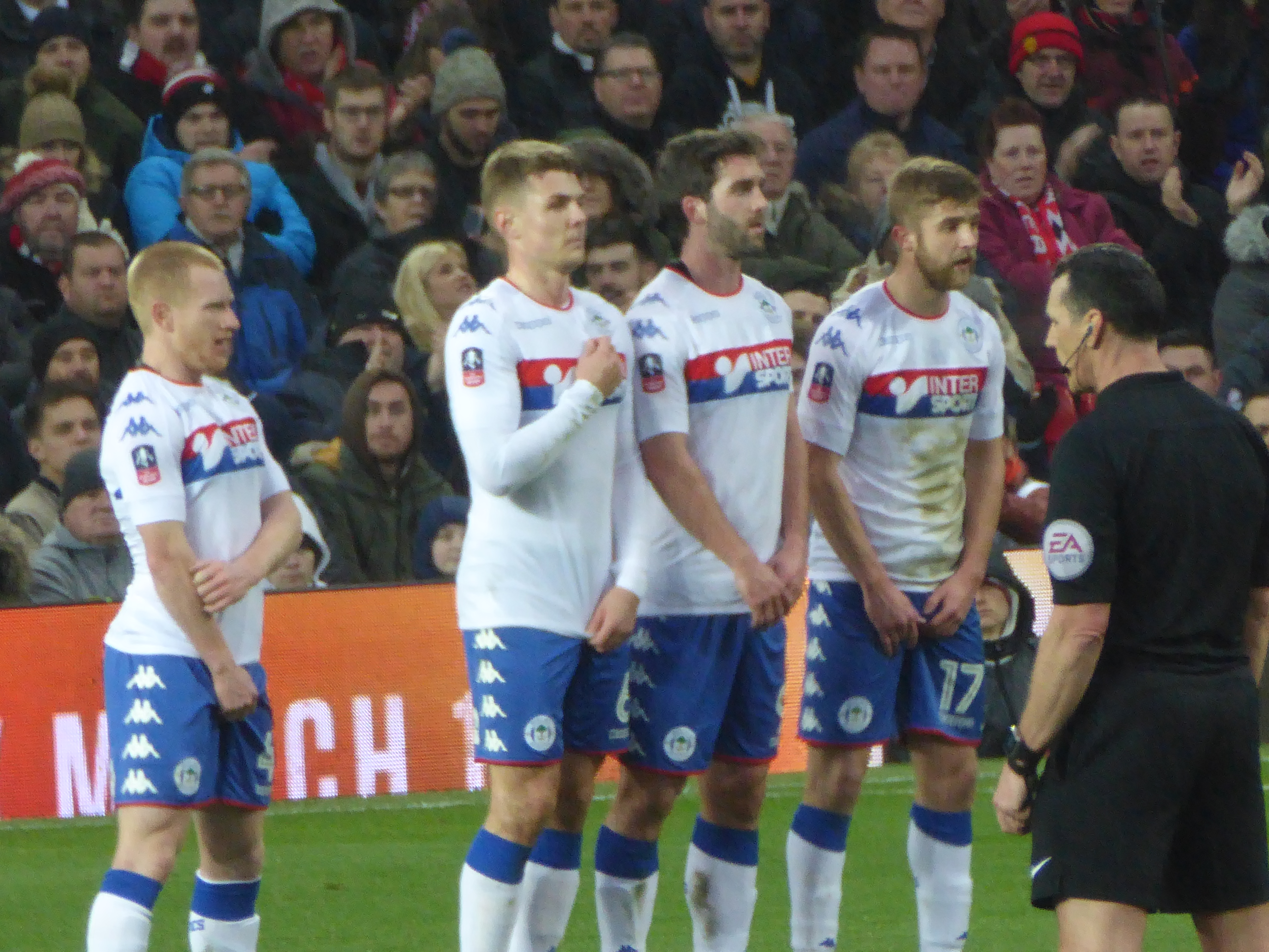 Manchester United v Wigan Athletic (4-0), FA Cup, Old Trafford, Manchester, Greater Manchester, England, 29 January 2017